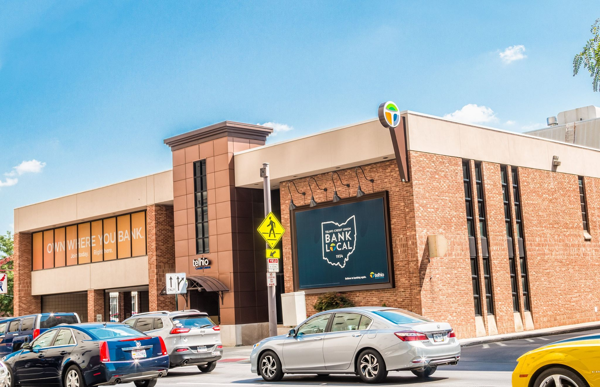 Downtown Branch and Headquarters located at 96 N 4th Street in Columbus, Ohio.